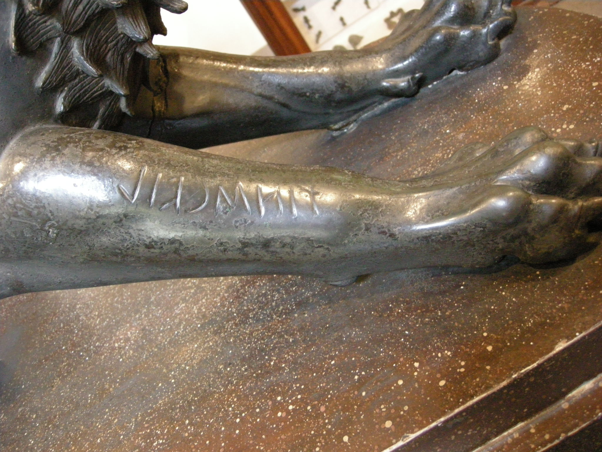 An etruscan signature on the so called "'Chimera of Arezzo" is an Etruscan bronze statue of the mythological monster chimera, on display in the Archaeological museum in Florence, Italy.